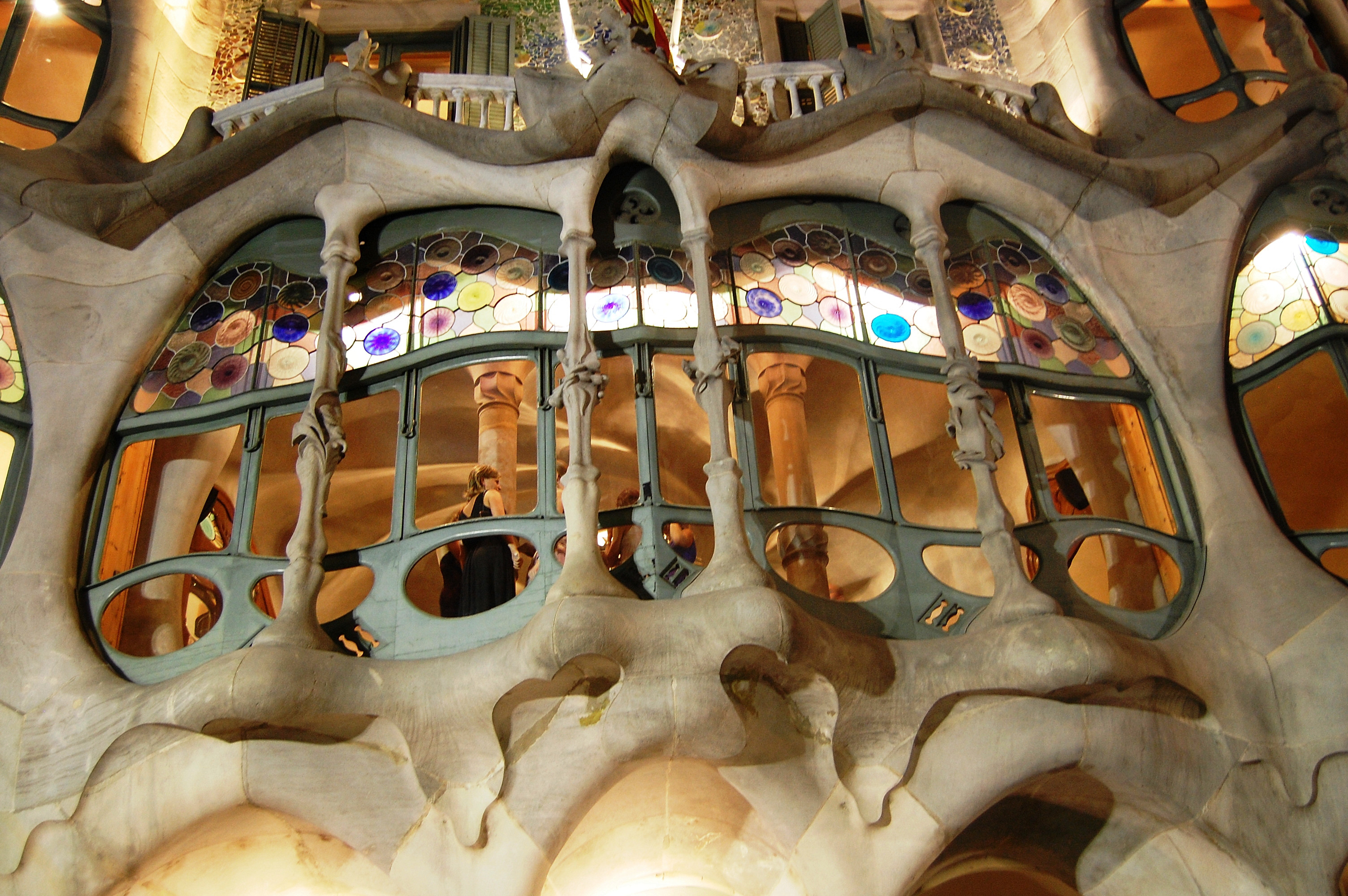 Casa Batlló - Barcellona Antoni Gaudi